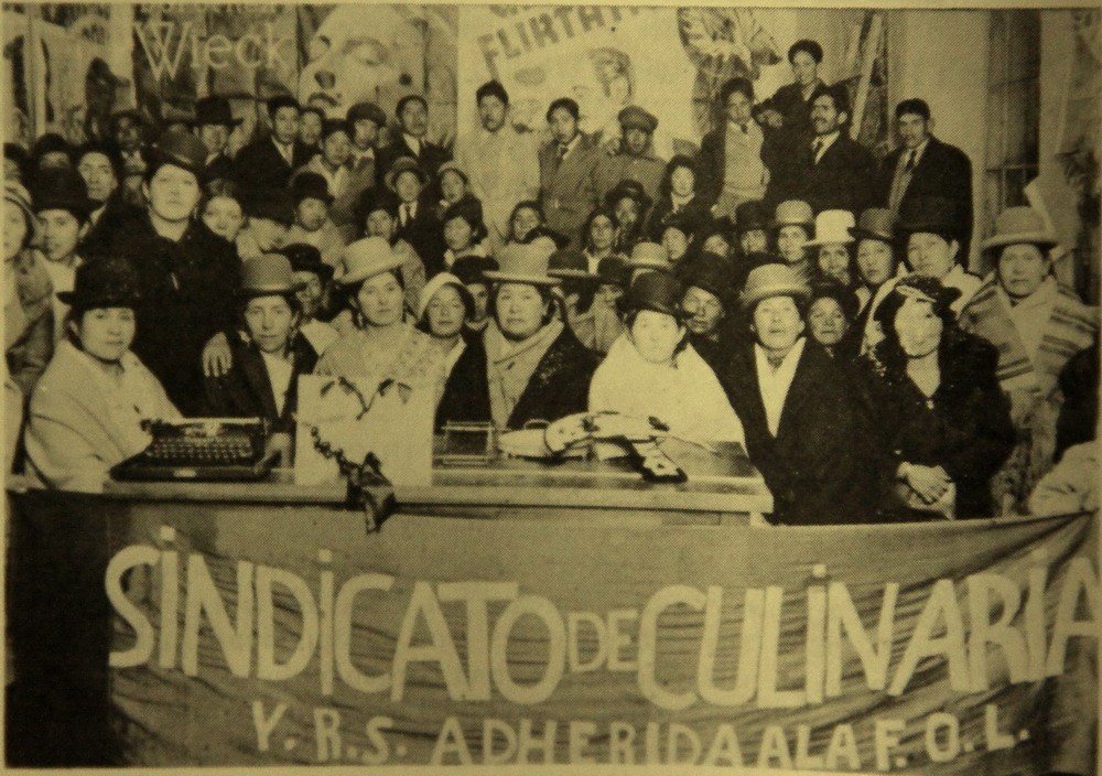 Culinarias Union of La Paz, Bolivia (1937).